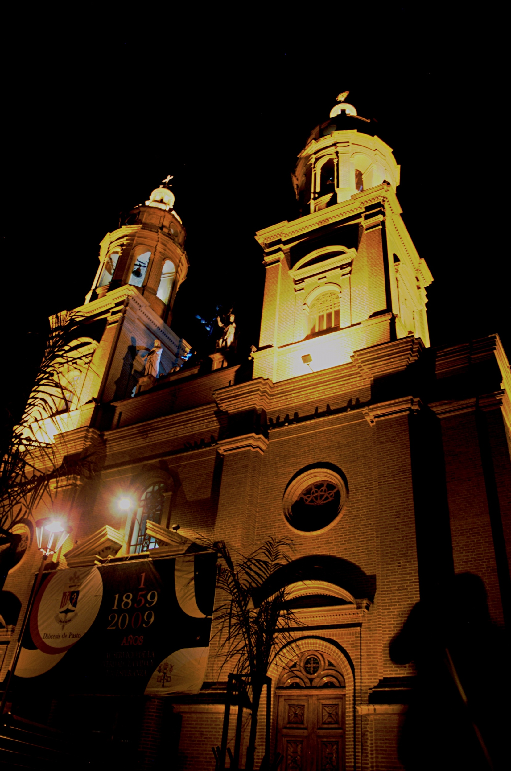 San Ezequiel Moreno Diaz Cathedral, central church of the Diocese of Pasto